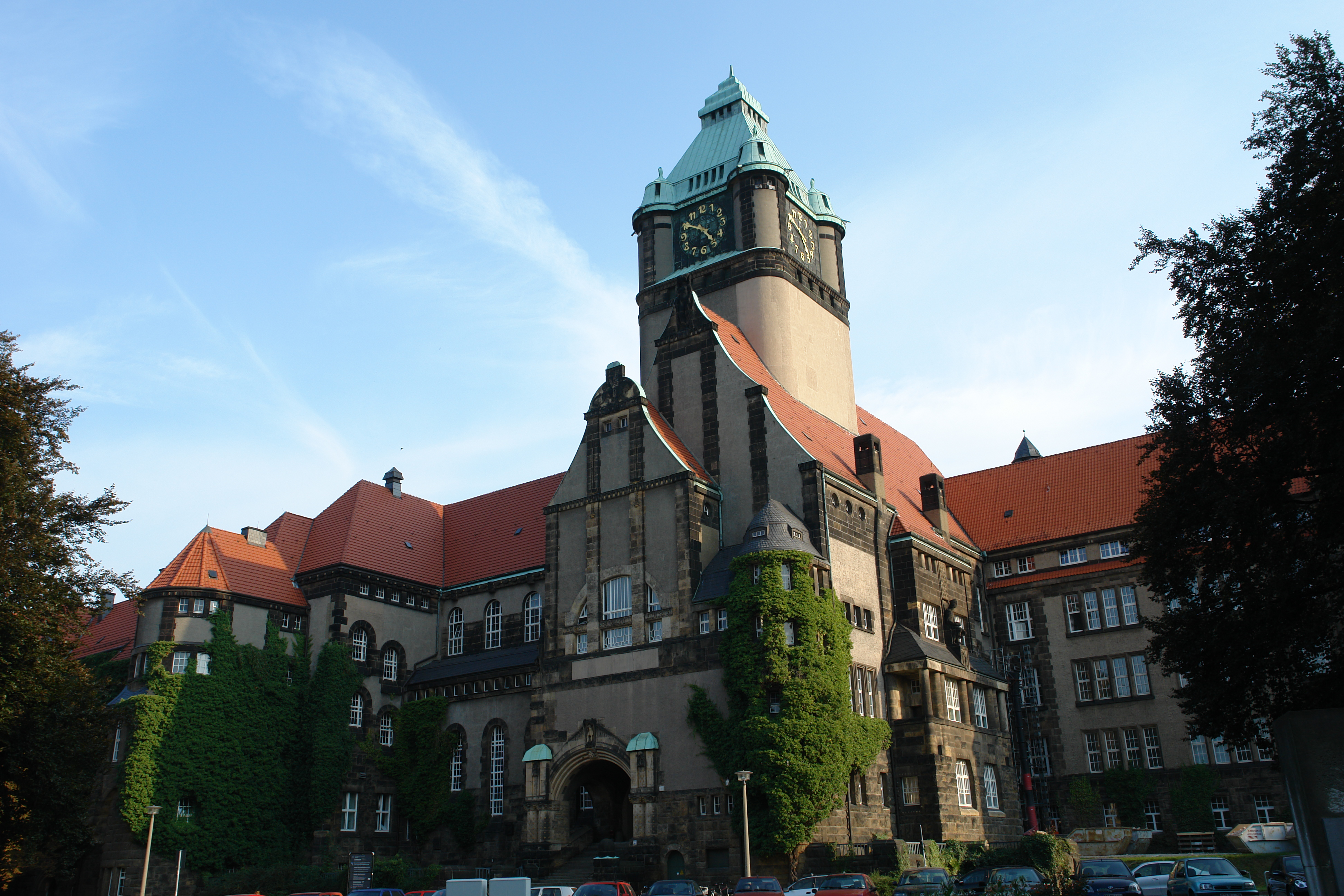 Georg-Schumann-Bau of the Technische Universität Dresden (Dresden University of Technology), Germany.